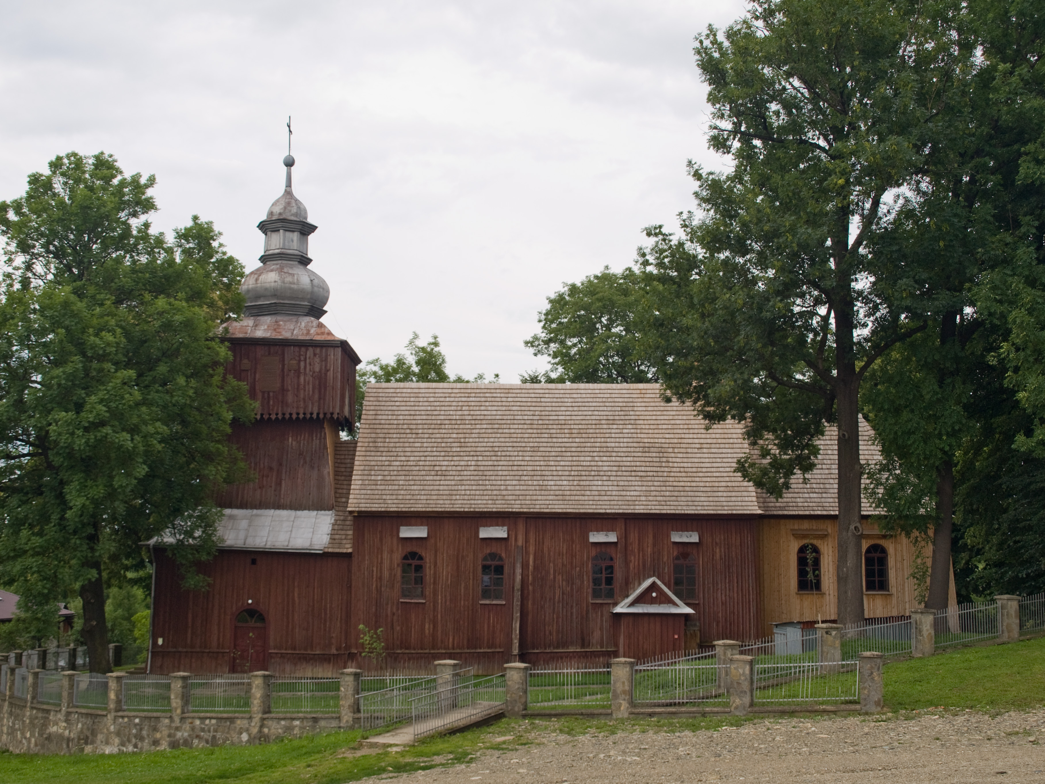 Church, Rogi, Subcarpathian Voivodeship